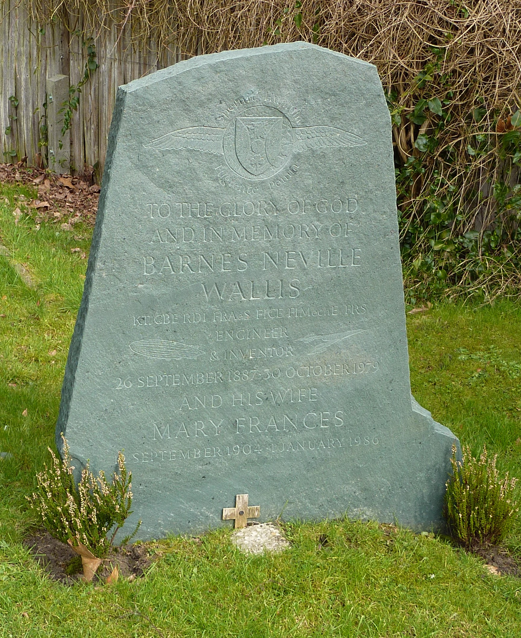 The grave of Barnes Wallis, engineer and inventor of the bouncing bomb, at St. Lawrence Church, Effingham, Surrey, England.